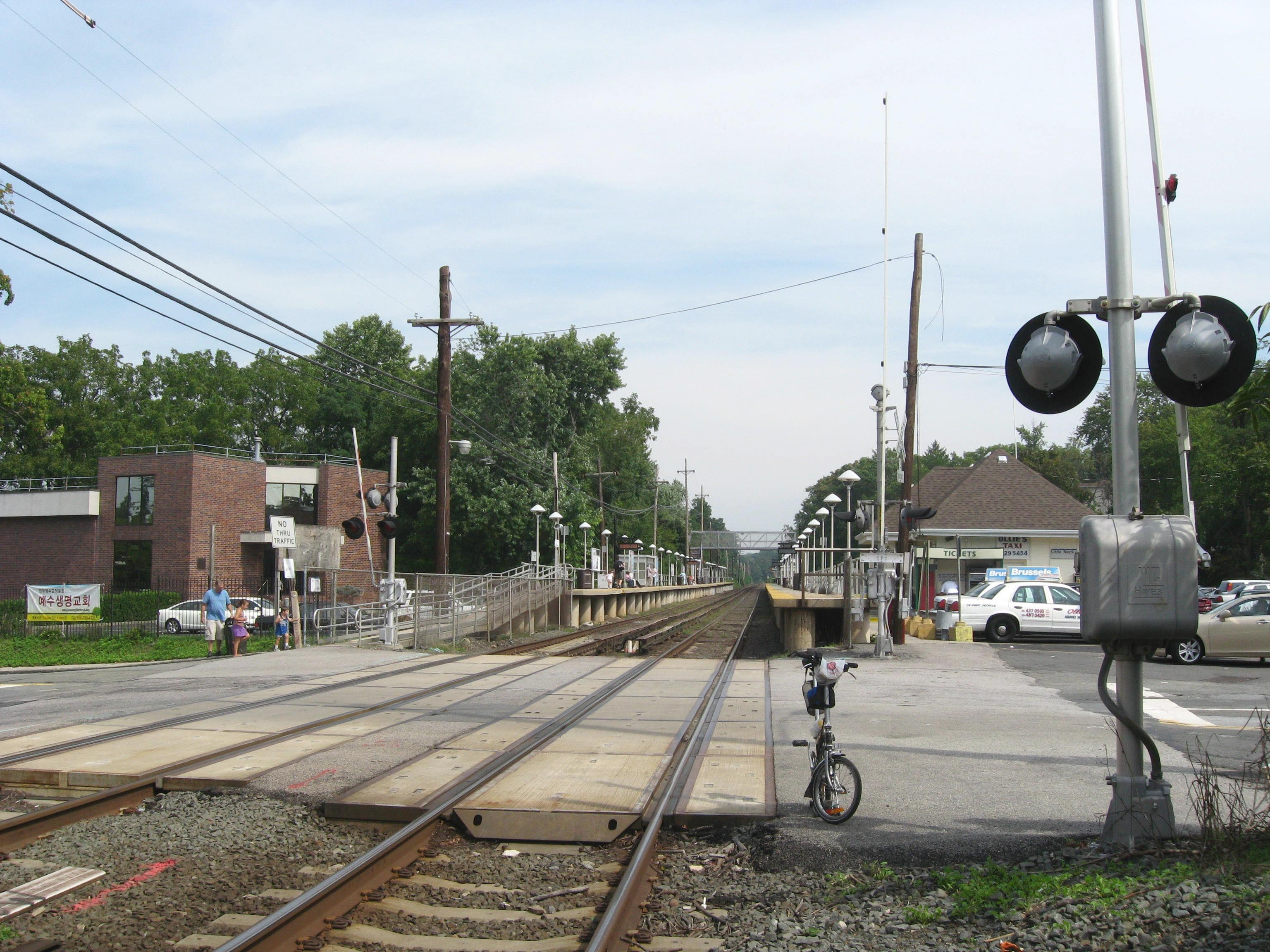 Looking northeast across Little Neck Parkway grade crossing at Little Neck (LIRR station) on a partly cloudy late morning